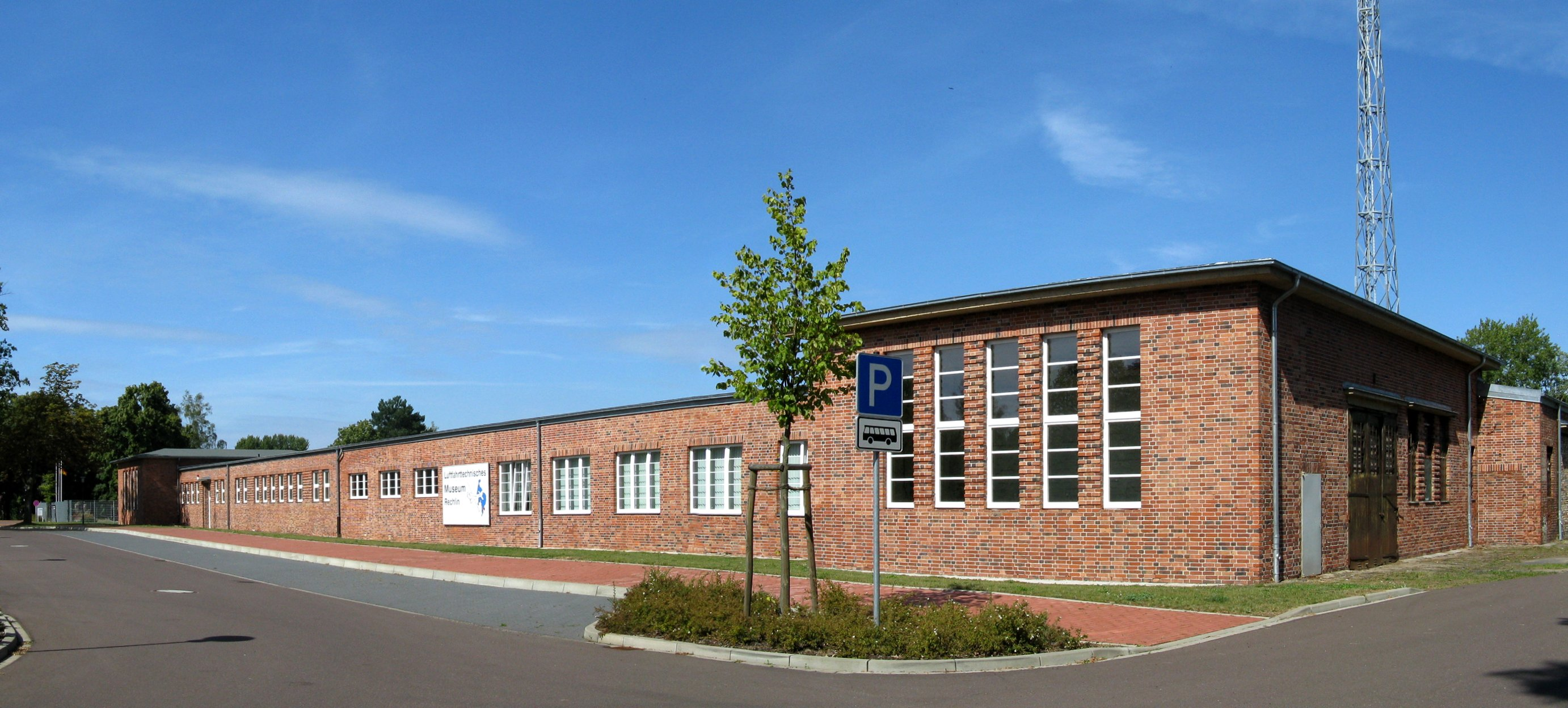 Luftfahrttechnisches Museum in Rechlin Nord, disctrict Müritz, Mecklenburg-Vorpommern, Germany